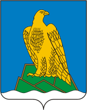 Beloretsk rayon (Bashkortostan), coat of arms